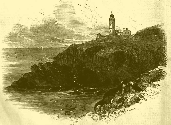 Engraved image of the newly built Trevose Head lighthouse, Cornwall, England 1847